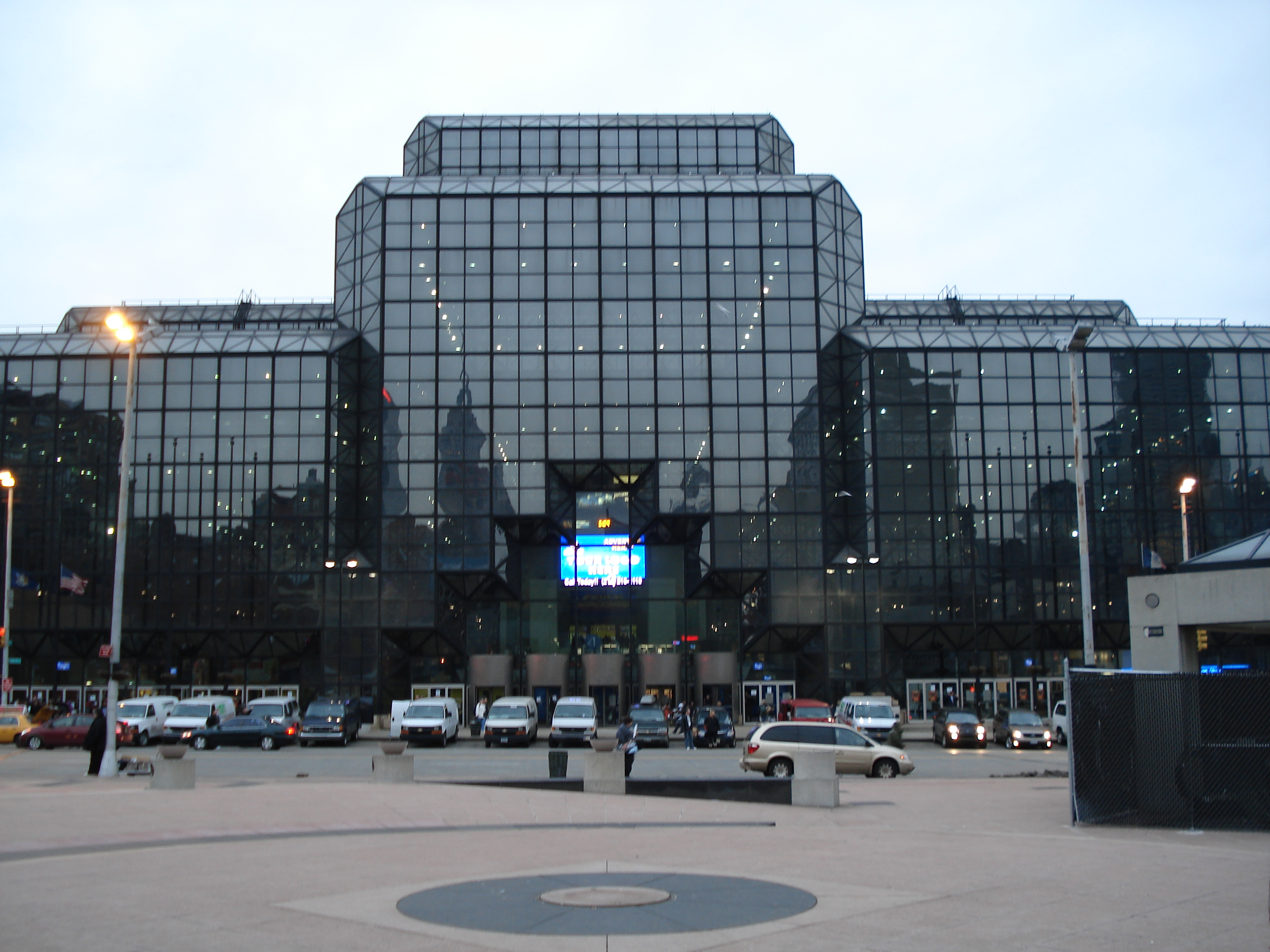 The Jacob K. Javits Convention Center in New York City in 2007. Copyright 2007 Jeffrey O. Gustafson - released under the GFDL and CC-BY-SA-2.0.